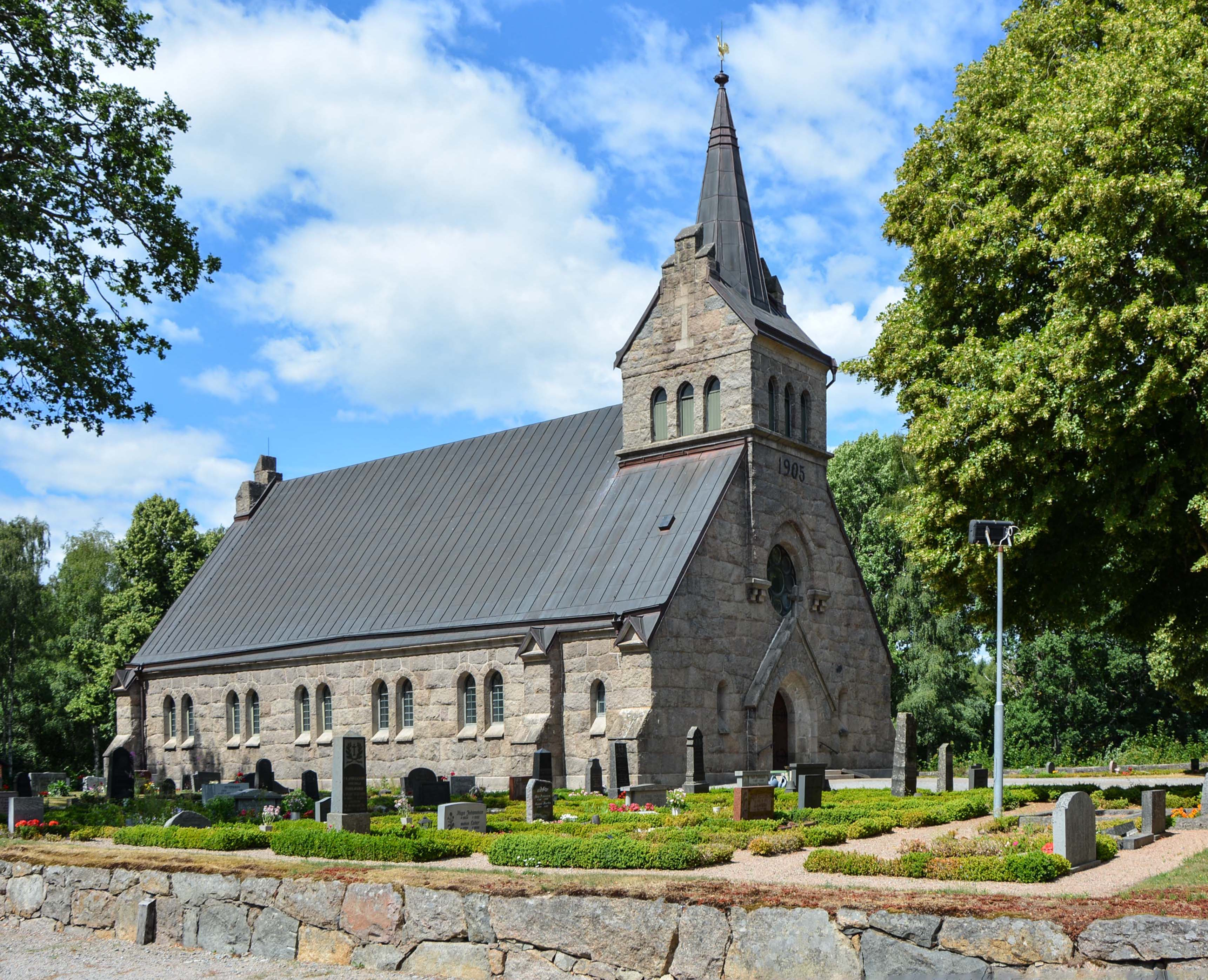 Flymen Church from southeast.The church was built in 1905 by master builder Carl Petersson and inaugurated in 1906.